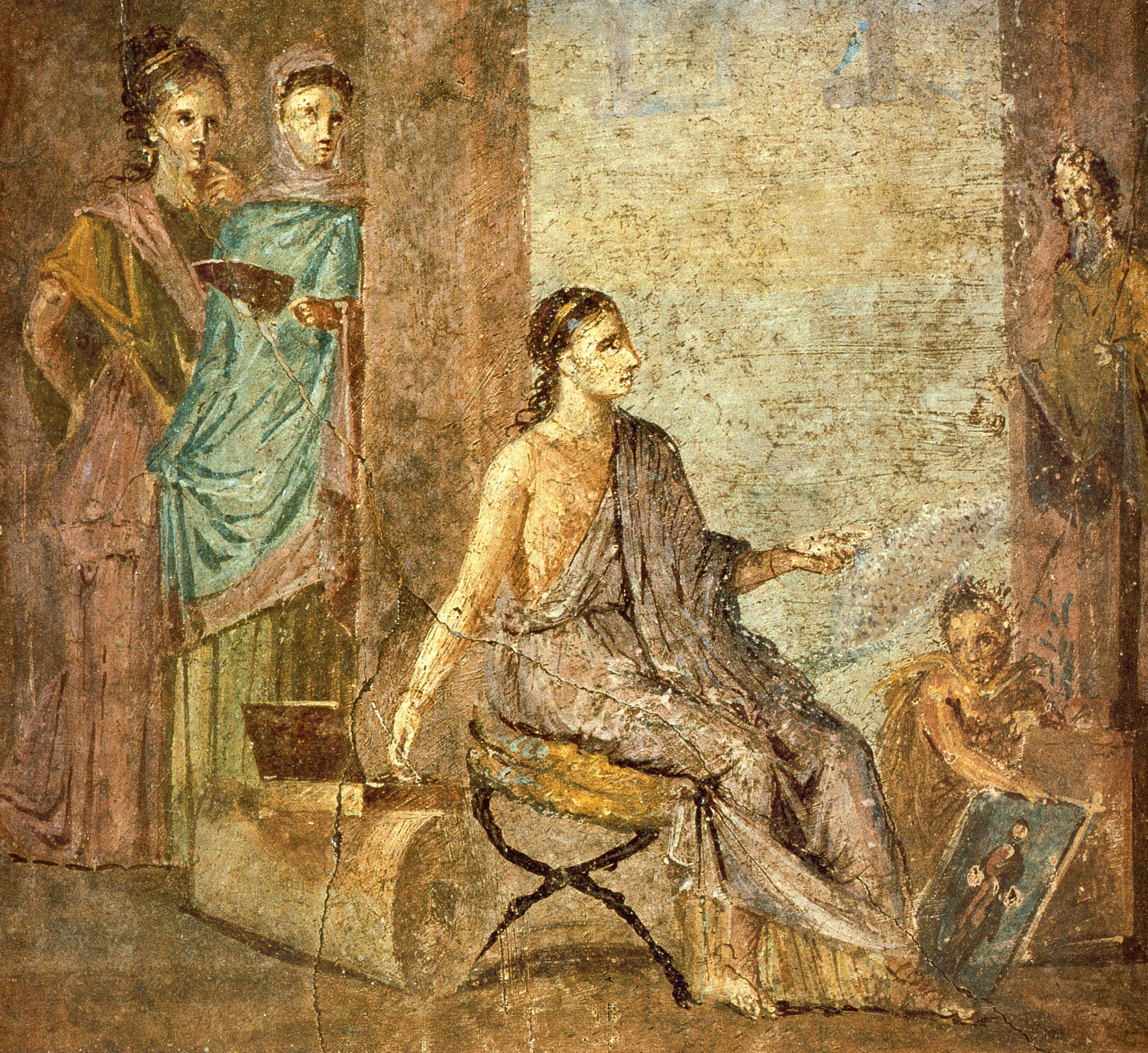 Woman, painting a statue of Priapus. Roman fresco from the Casa del Chirurgo (VI 1, 7-10-23) in Pompeii.